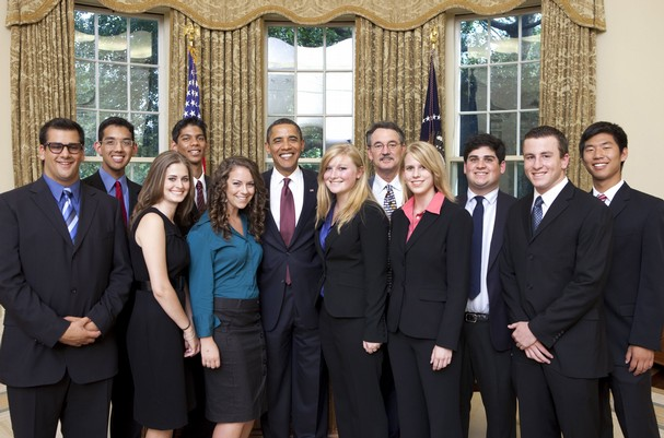 "President Barack Obama meets with Moorpark High School Academic Decathlon team on Wednesday. From left are Zyed Ismailjee, Kris Sankaran, Sarah Thiele, Neil Paik, Marlena Sampson, President Barack Obama, Kari Geiger, coach Larry Jones, Danielle Hagglund, Michael Fantauzzo, Scott Buchanan and Sol Moon."